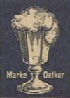 Dr.Oetker - Original logo - 1892